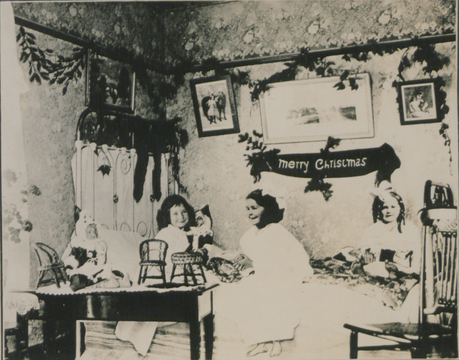 Original caption: “Christmas morning.”